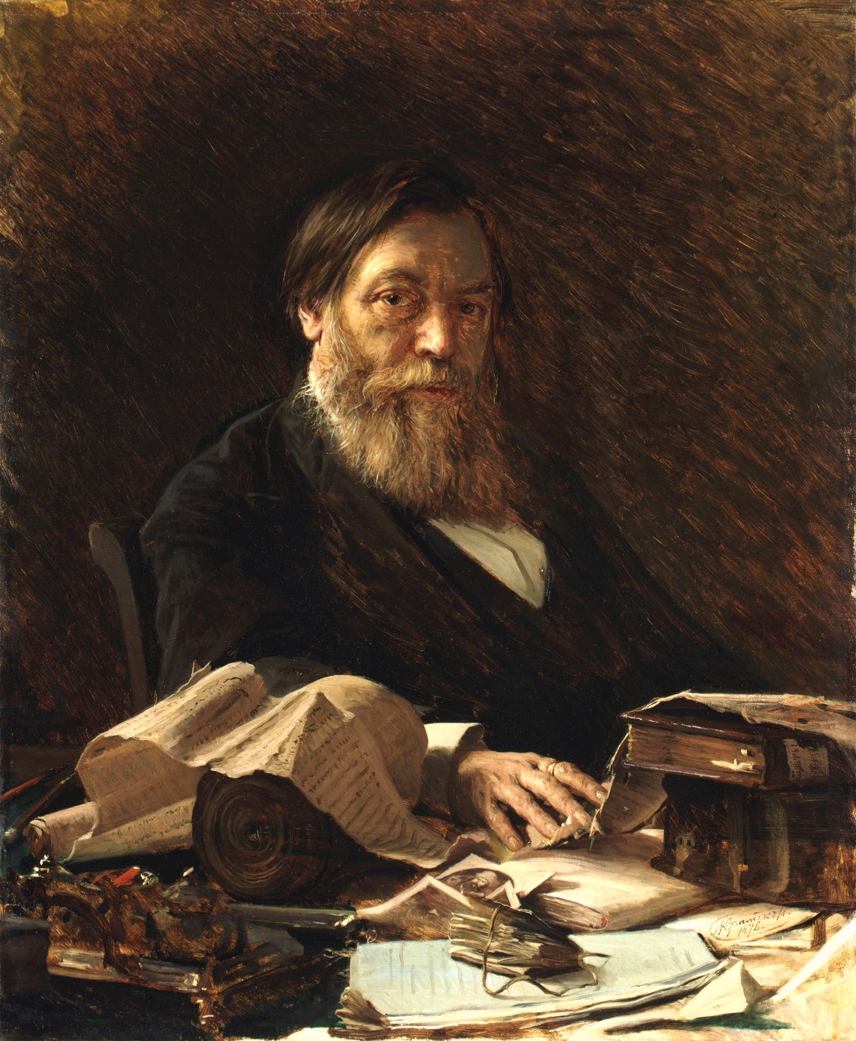 Russian writer Pavel Melnikov